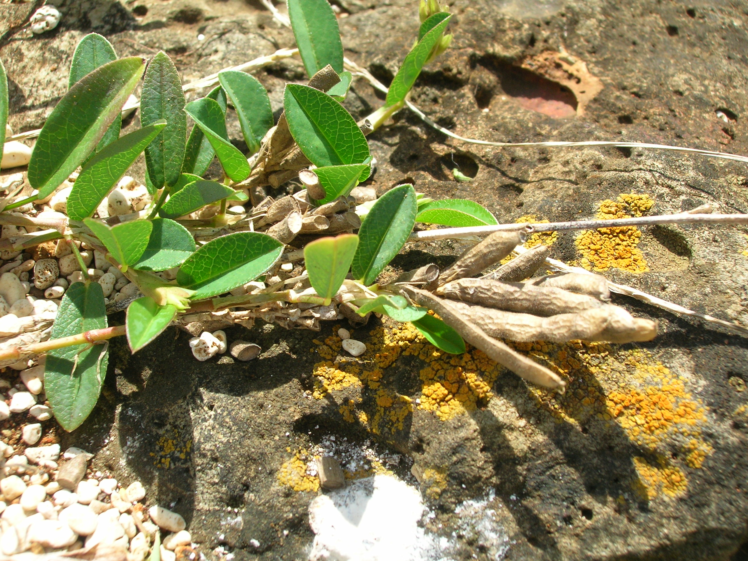 Alysicarpus vaginalis (habit). Location: Oahu, Mokolii